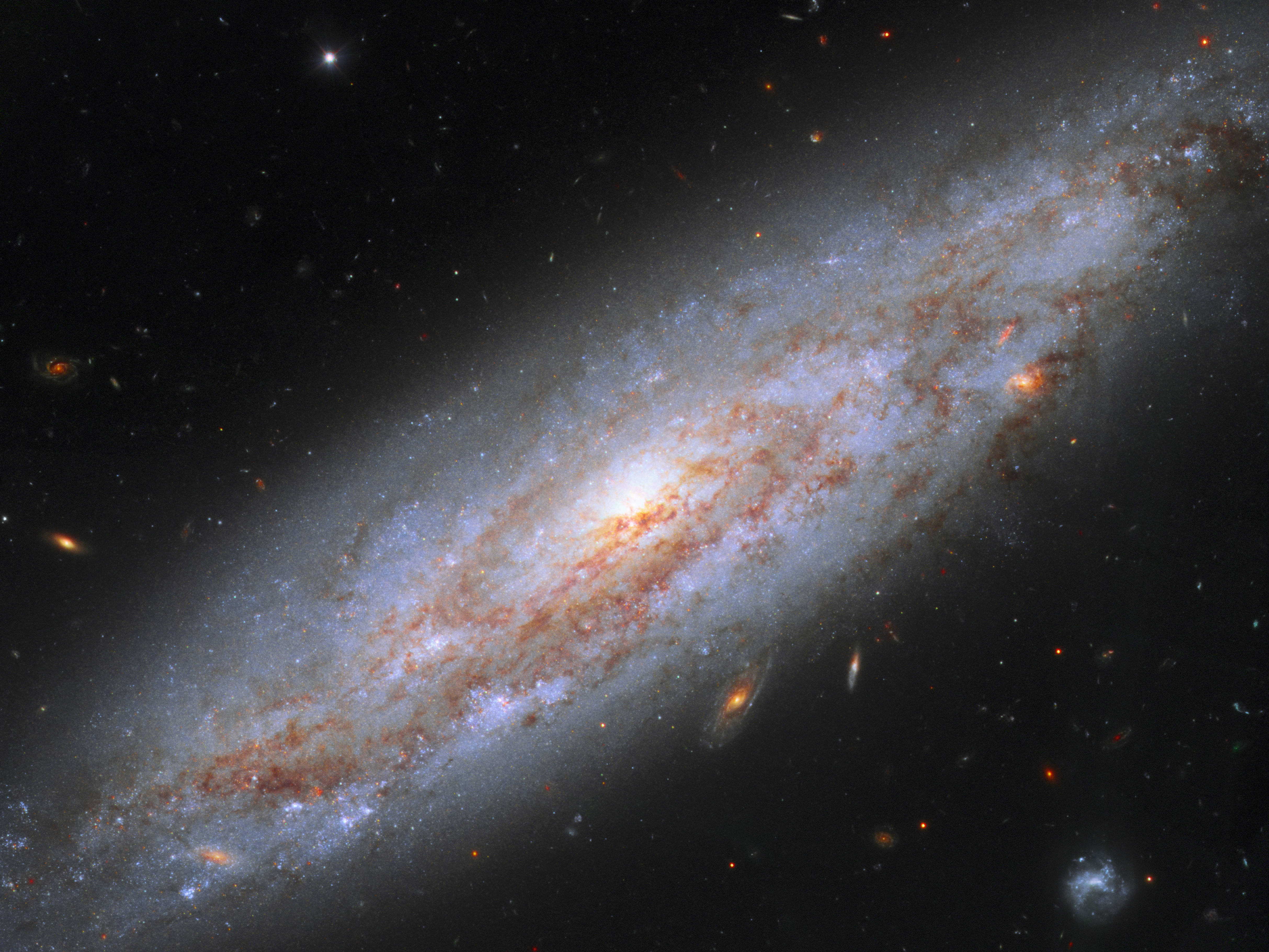 Galaxy full of cosmic lighthouses This enchanting spiral galaxy can be found in the constellation of Ursa Major (the Great Bear). Star-studded NGC 3972 lies about 65 million light-years away from the Earth, meaning that the light that we see now left it 65 million years ago, just when the dinosaurs became extinct. NGC 3972 has had its fair share of dramatic events. In 2011 astronomers observed the explosion of a type Ia supernova in the galaxy (not visible in this image). These dazzling objects all peak at the same brightness, and are brilliant enough to be seen over large distances. NGC 3972 also contains many pulsating stars called Cepheid variables. These stars change their brightness at a rate matched closely to their intrinsic luminosity, making them ideal cosmic lighthouses for measuring accurate distances to relatively nearby galaxies. Astronomers search for Cepheid variables in nearby galaxies which also contain a type Ia supernova so they can compare the true brightness of both types of stars. That brightness information is used to calibrate the luminosity of Type Ia supernovae in far-flung galaxies so that astronomers can calculate the galaxies' distances from Earth. Once astronomers know accurate distances to galaxies near and far, they can determine and refine the expansion rate of the Universe. This image was taken in 2015 with Hubble’s Wide Field Camera 3, as part of a project to improve the precision of the Hubble constant — a figure that describes the expansion rate of the Universe. Credit: NASA, ESA, A. Riess (STScI/JHU)